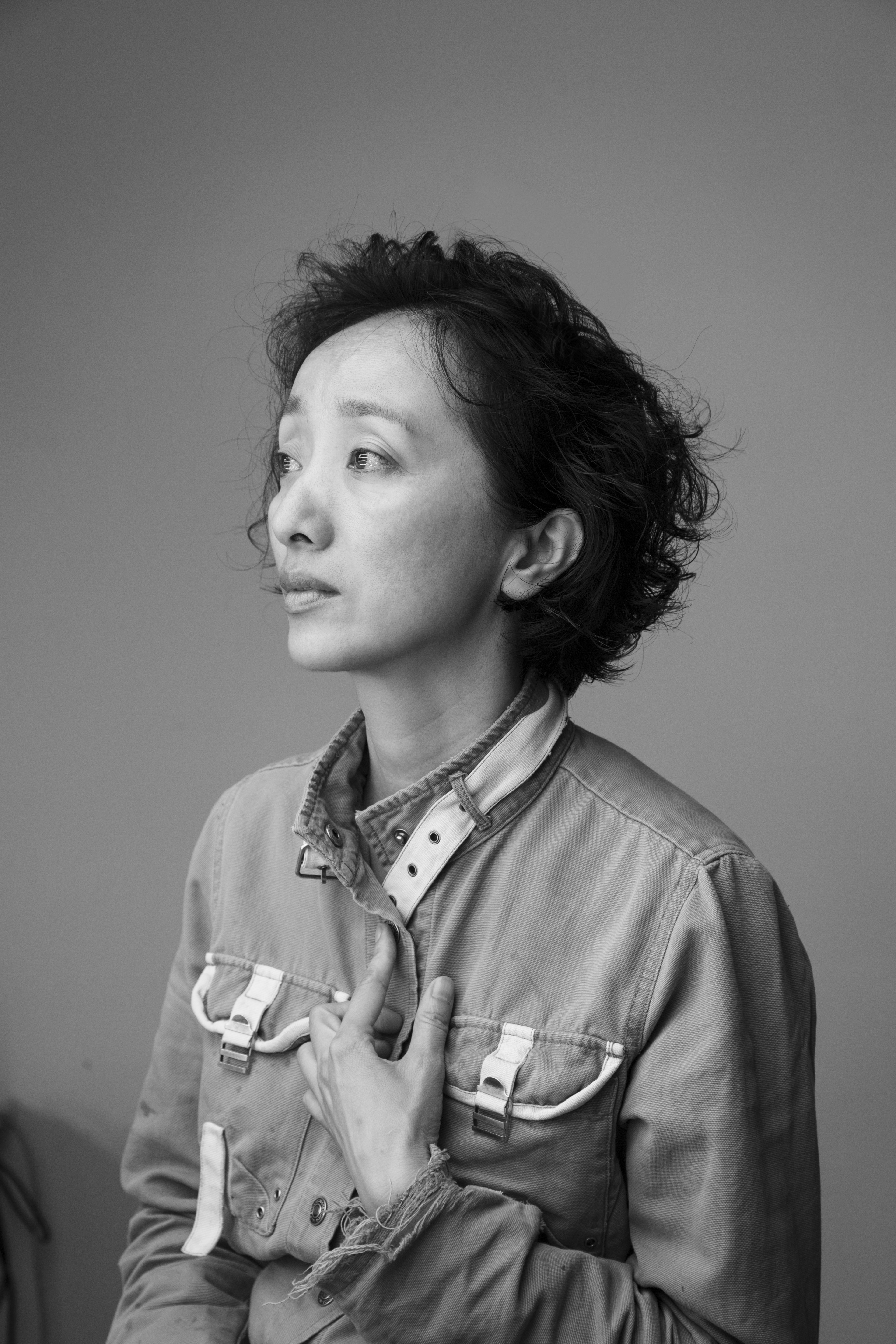 Xiang Jing press portrait by Fan Xi, 2015